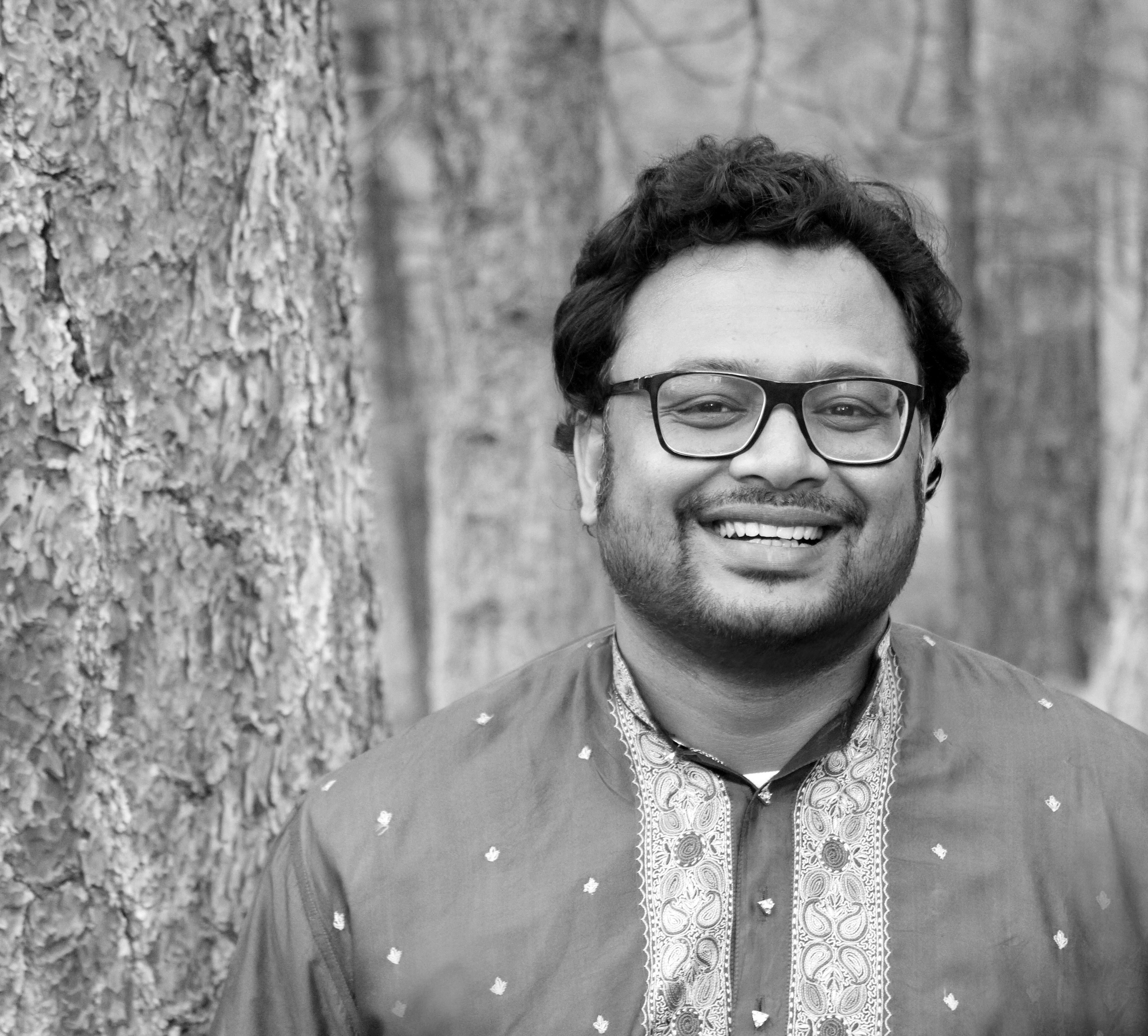 Kolkata Sitar Master (and founder of the LAIMA Academy) RAJIB KARMAKAR in the Los Padres National Forest, California - USA in August 2019 - photograph by Ithaka Darin Pappas